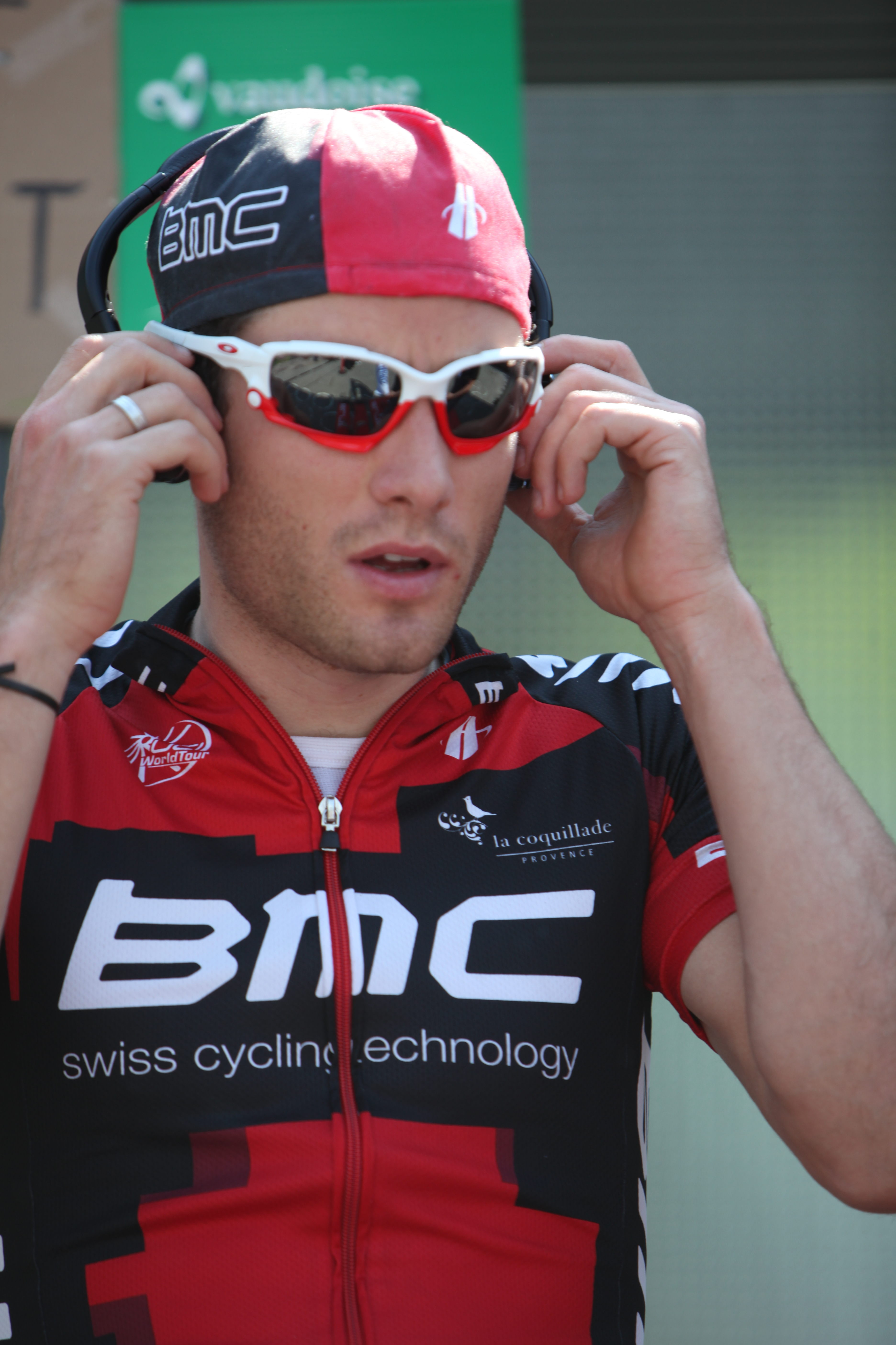 Danilo Wyss at the prologue of the Tour de Romandie 2011